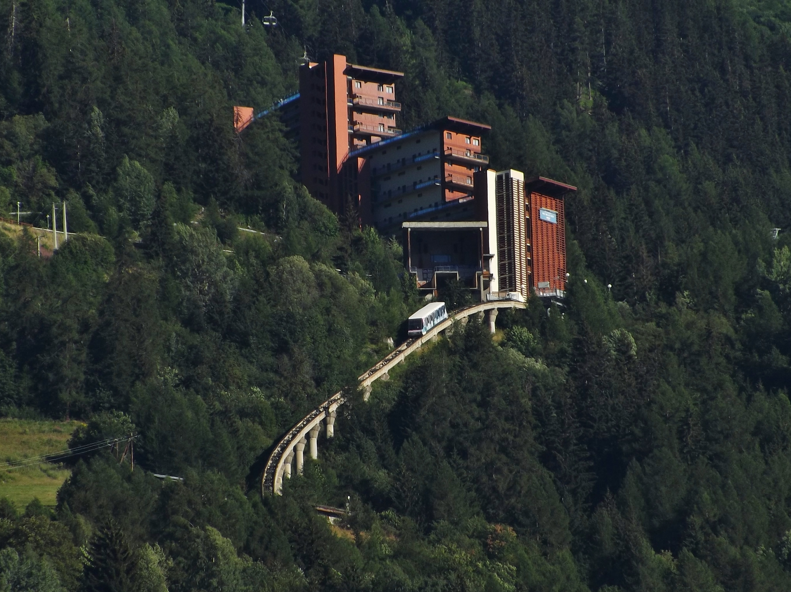 Sight of the Funiculaire Les Arcs' express funicular, arriving at Les Arcs 1600 ski resort in Savoie (France), during summer.